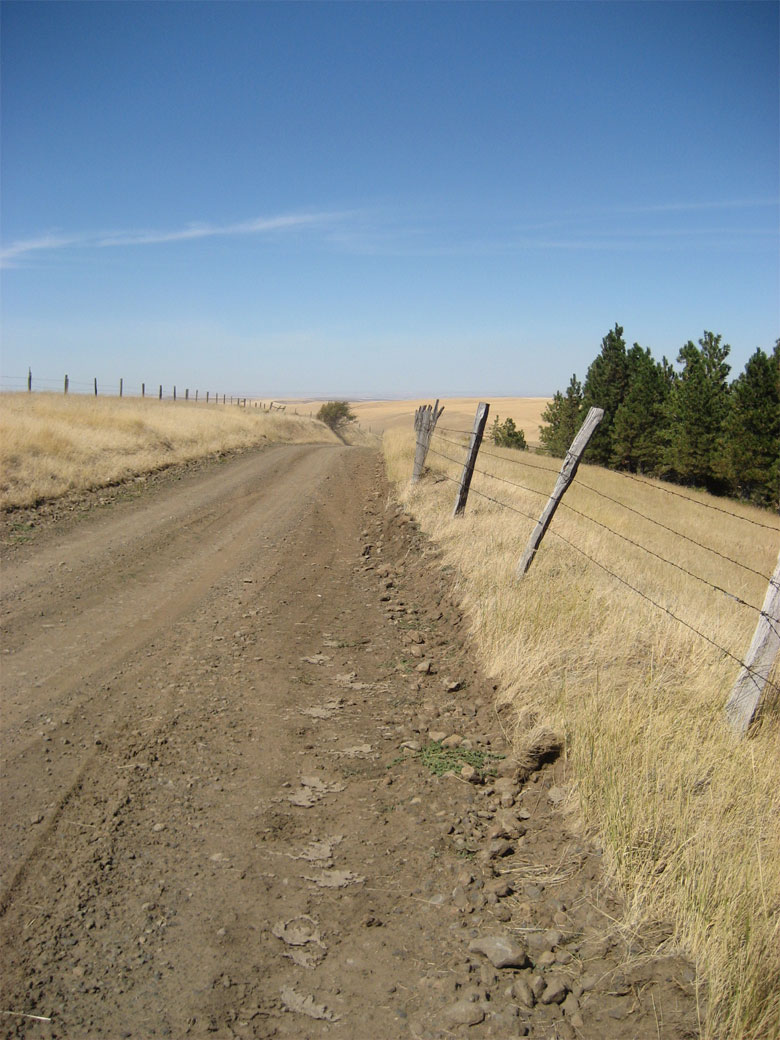 A primitive road near Dayton, Washington, United States of America.